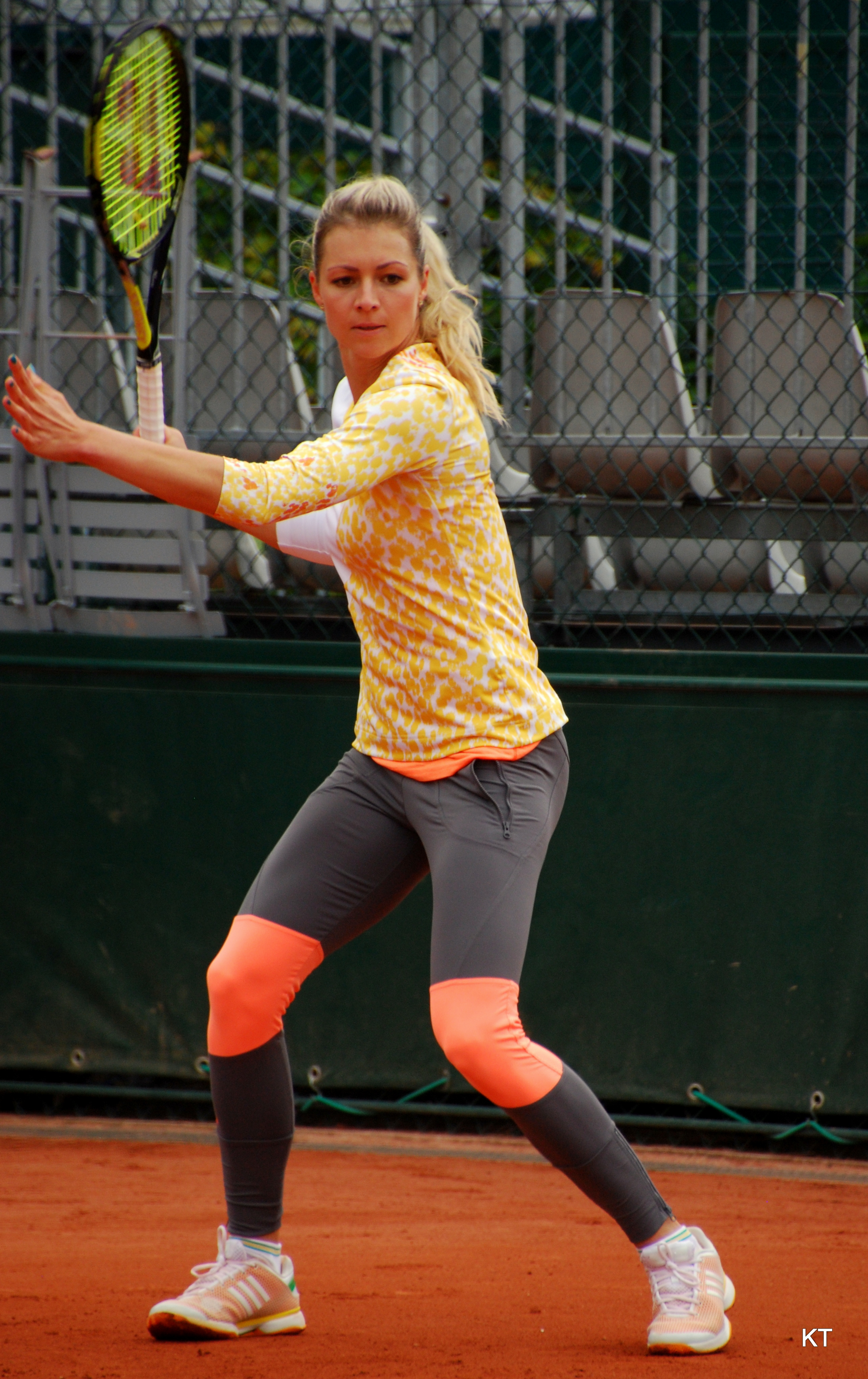 On the practice court. Day 4 of Roland Garros 2014.